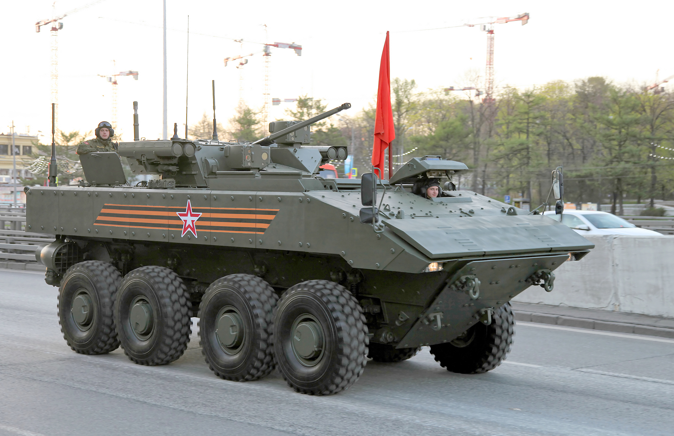 Armoured personnel carrier VPK-7829 Bumerang